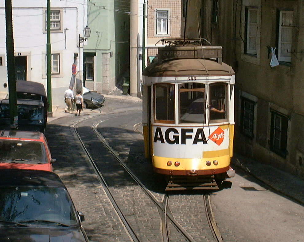 Electric tram in Lisbon, Portugal